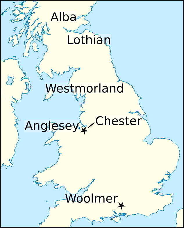 Map for the Wikipedia article concerning Máel Coluim, King of Strathclyde (died 997).